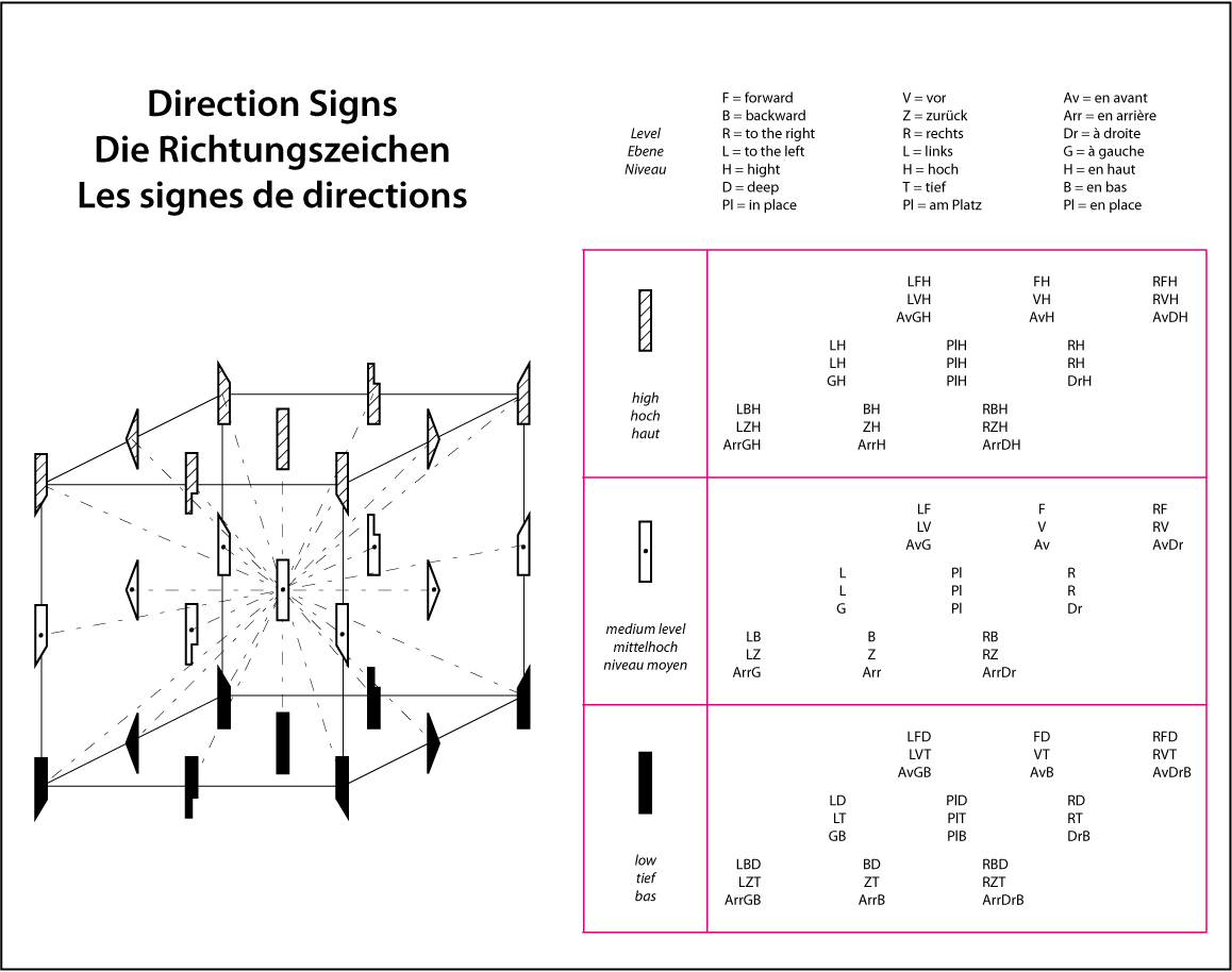 Direction Signs used in Kinetography Laban